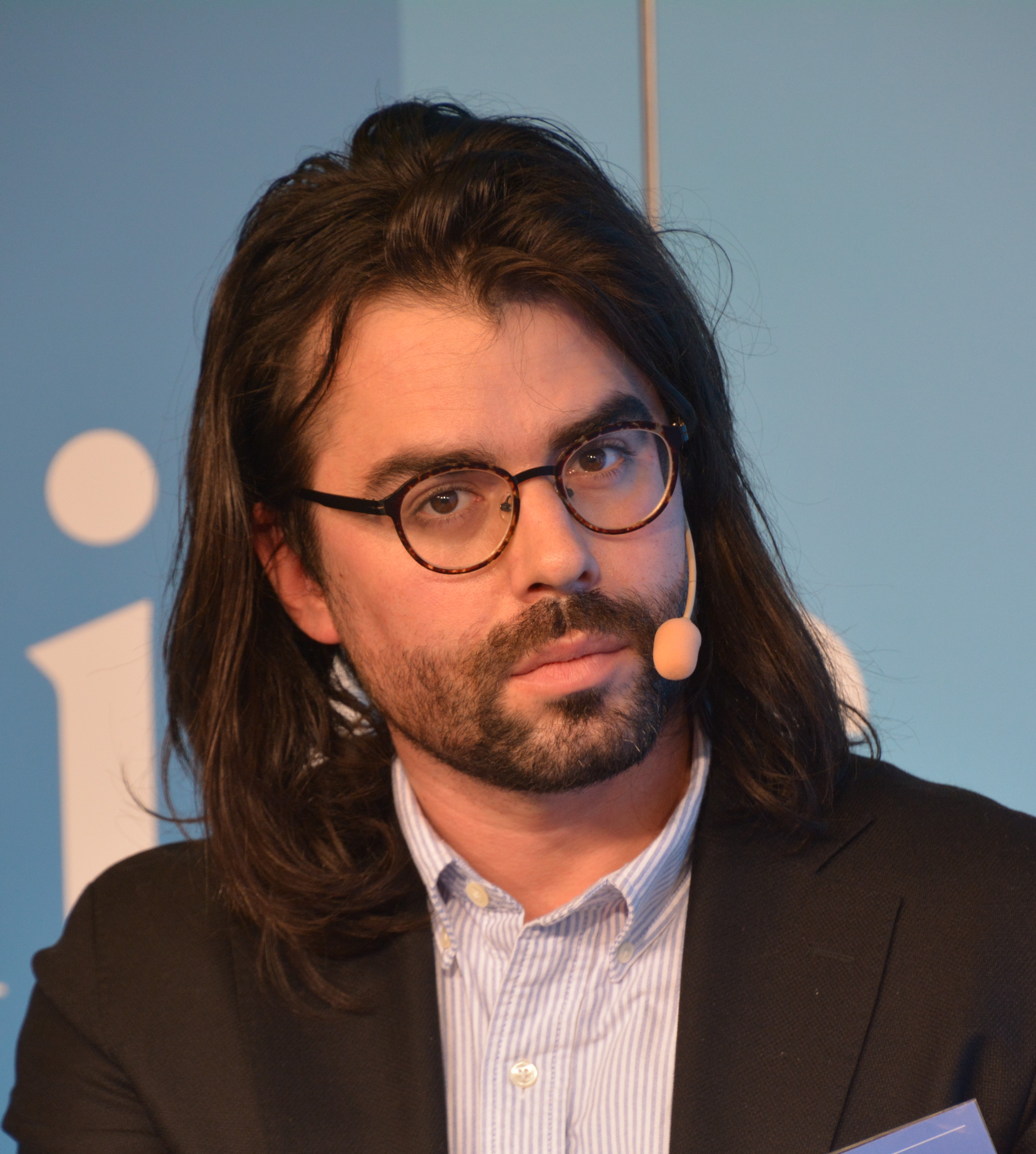 Björn Werner